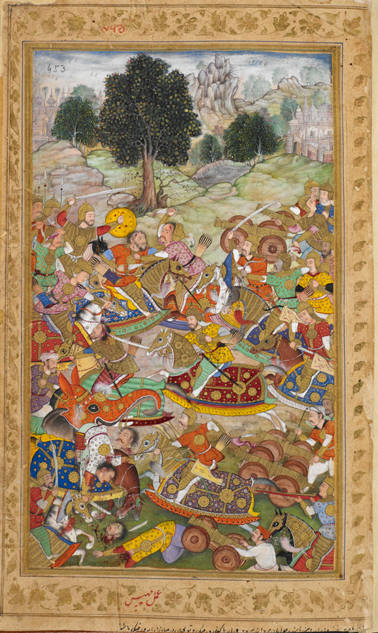 Description Babur's army in battle against the army of Rana Sanga at Kanvaha (Kanusa) in which bombards and field guns were used. Folio Or.3714, f.453 Title of Work Vaki'at-i Baburi, the Memoirs of Babur, translated to Persian from the Turki original by Mirza 'Abd al-Rahim, Khan-i khanan. One hundred and forty-three miniatures (mostly with attributions). Shelfmark British Library Or. 3714 Author "Mirza 'Abd al-Rahim, Khan-i khanan (Mirza 'Abd al-Rahim, Khan-i khanan)" Illustrator "Mahesh (Mahesh)" Provenance and date of work c.1590